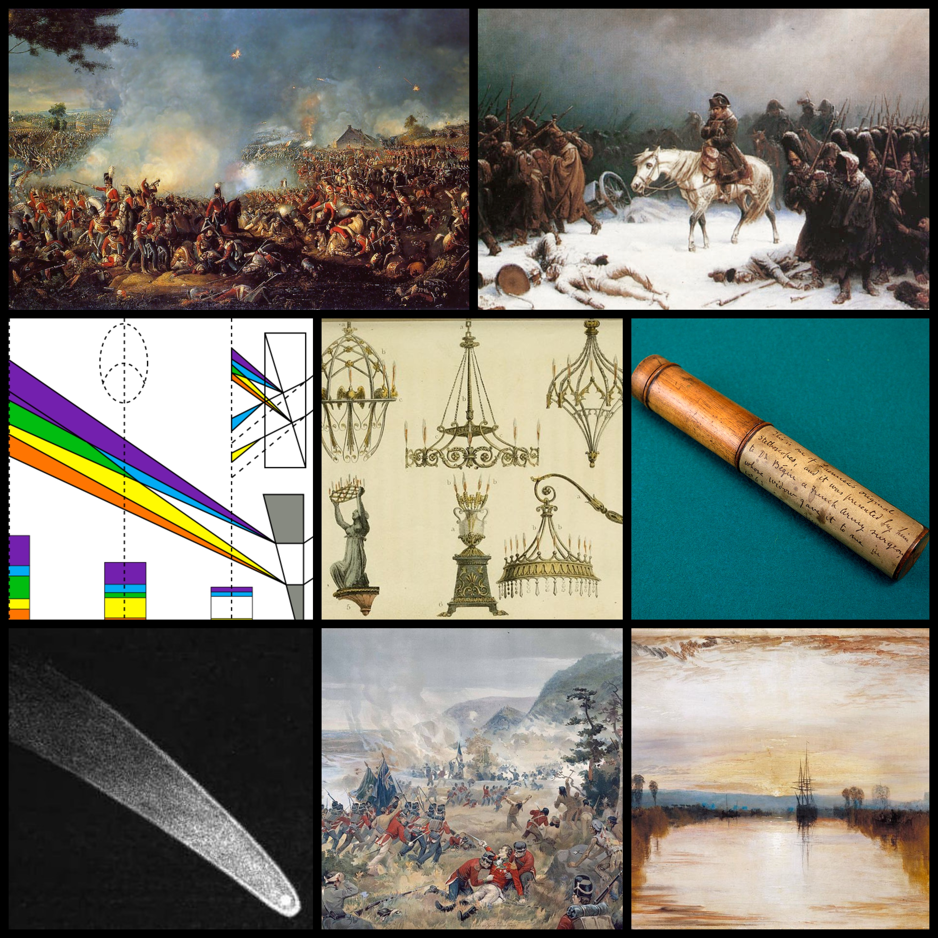 A montage of notable events in the 1810s.